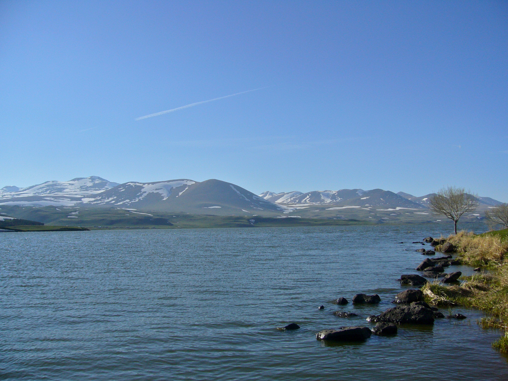 Lake Paravani, view from the village of Poka, Georgia